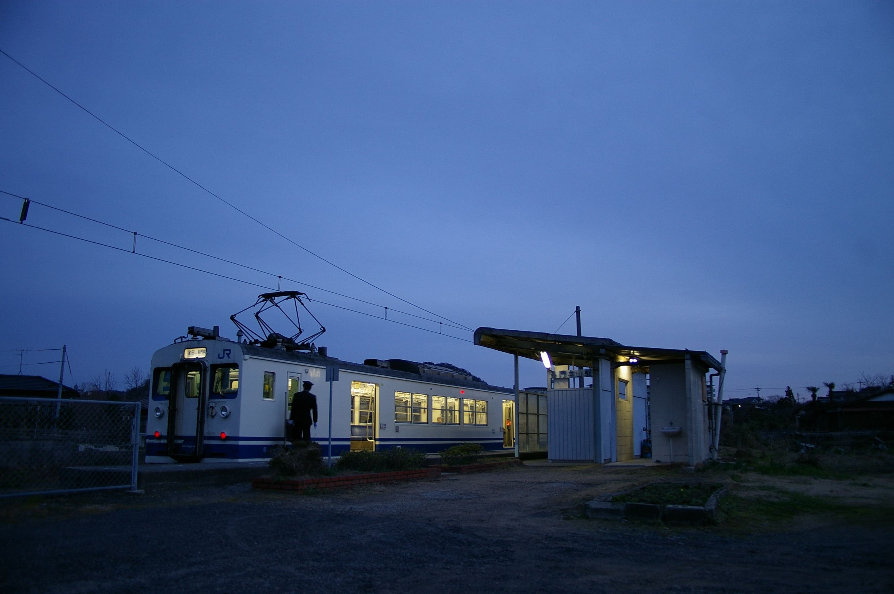 JR West 123 series EMU at Nagato-Motoyama Station on the Onoda Line